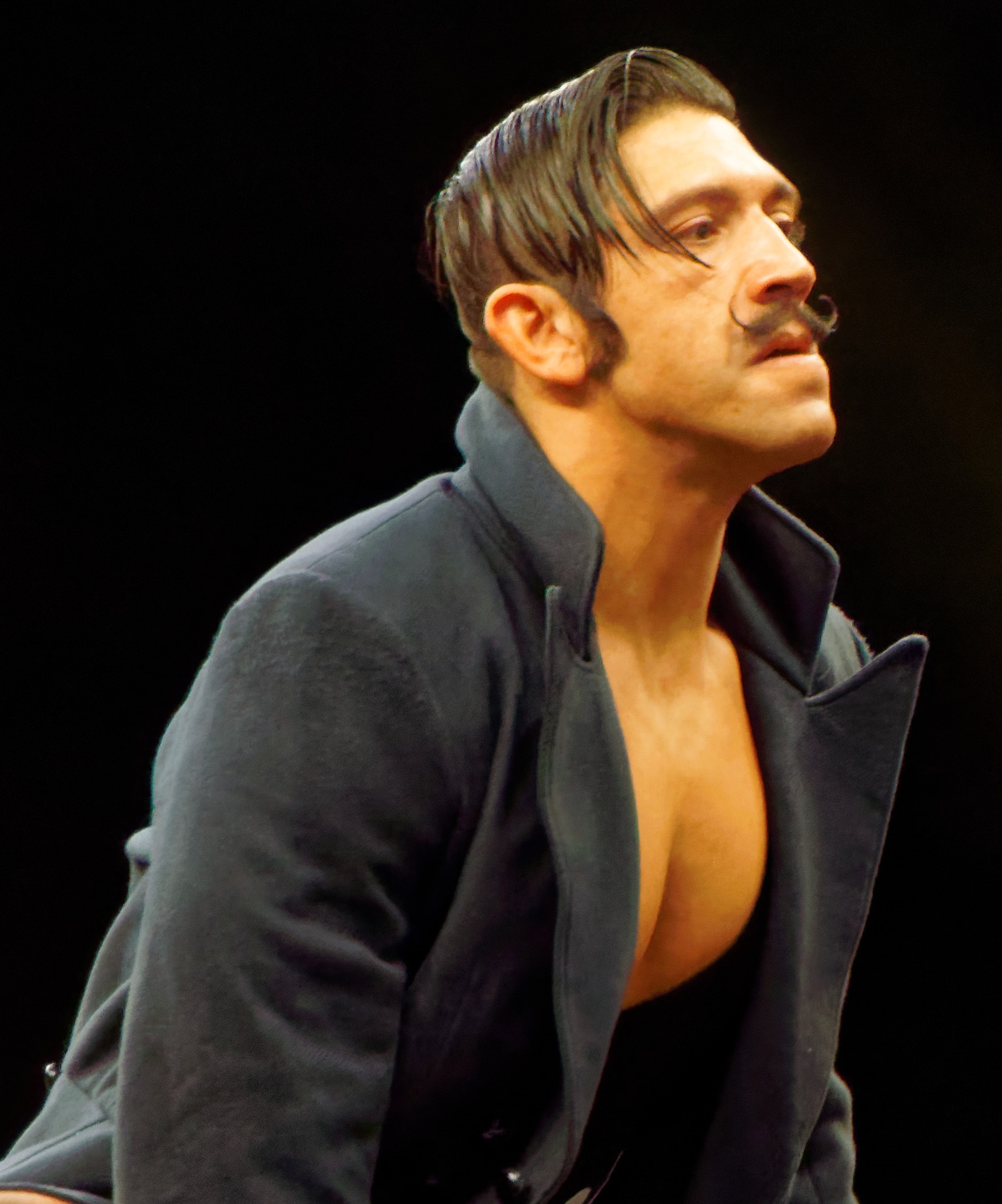 Simon Gotch at WrestleMania 32 Axxess in April 2016.